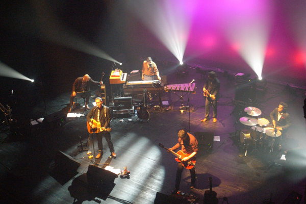 Tindersticks, Victoria Eugenia, Donostia, 2009